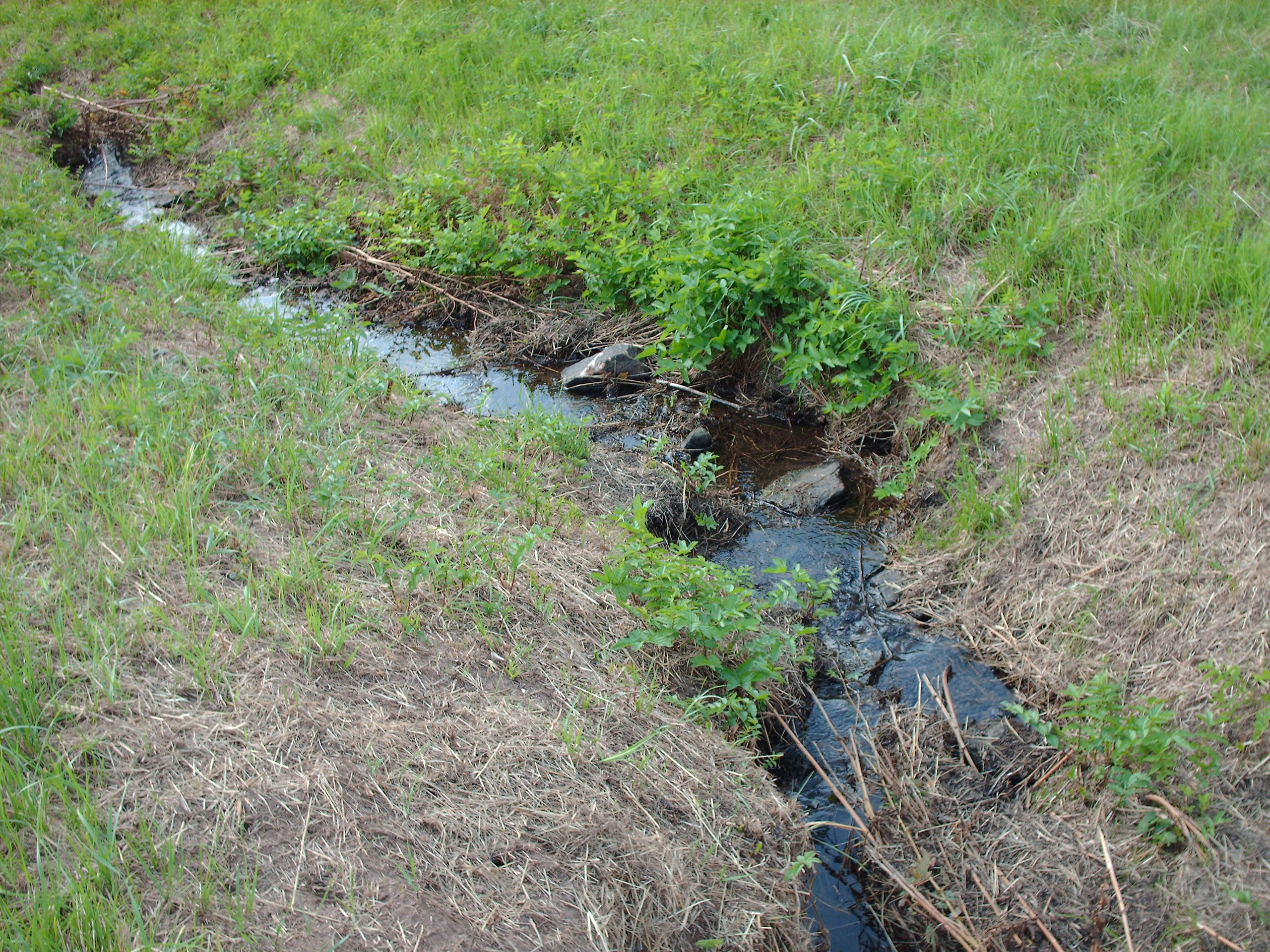 Kilsbach river near Kilsbach, Brensbach, Germany check usage